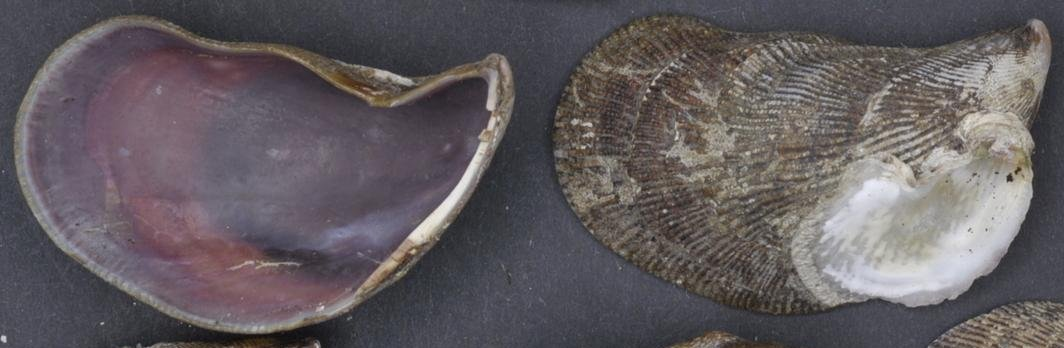 Crop of file in filename